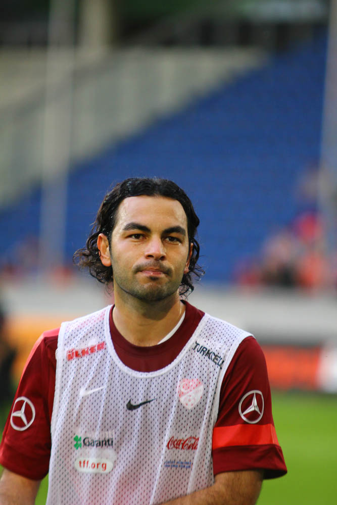 Turkish international football player Selçuk İnan